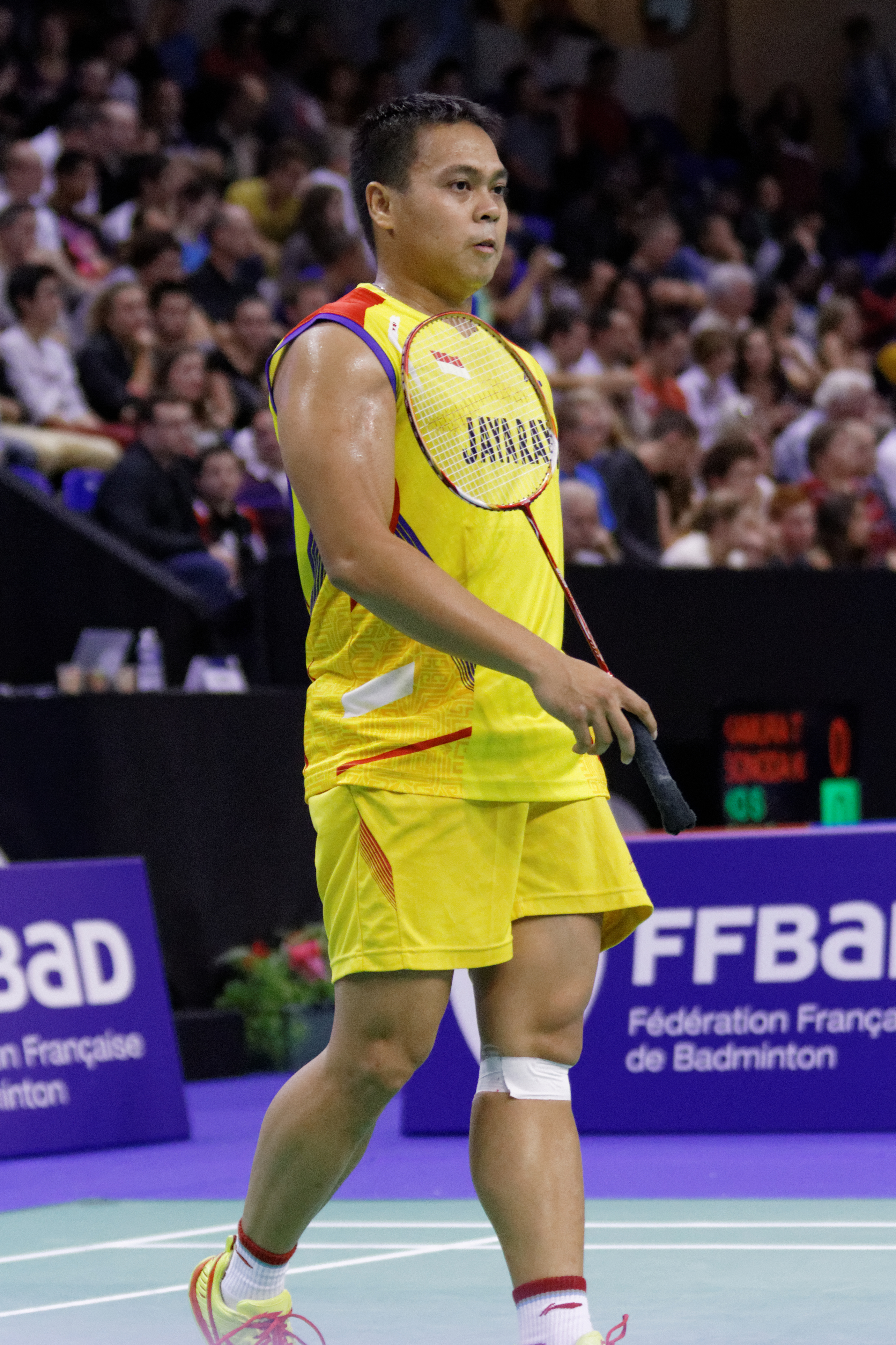 2013 French open. Mixed's doubles eightfinal. Markis Kido and Pia Zebadiah Bernadeth vs Chris Adcock and Gabrielle White.